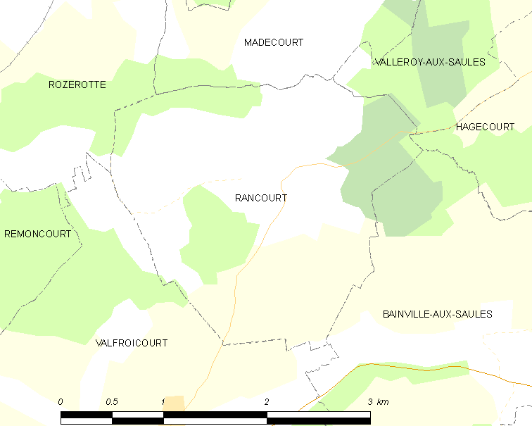 Map of French municipality Rancourt